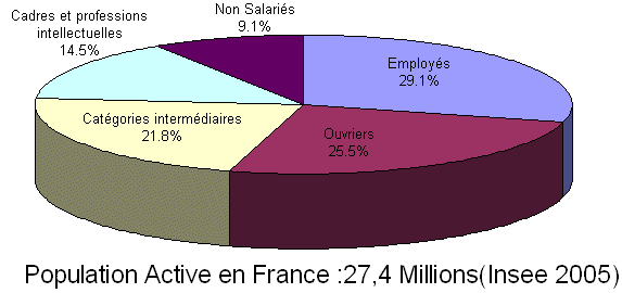 Population Active en France 2005 (source Insee)